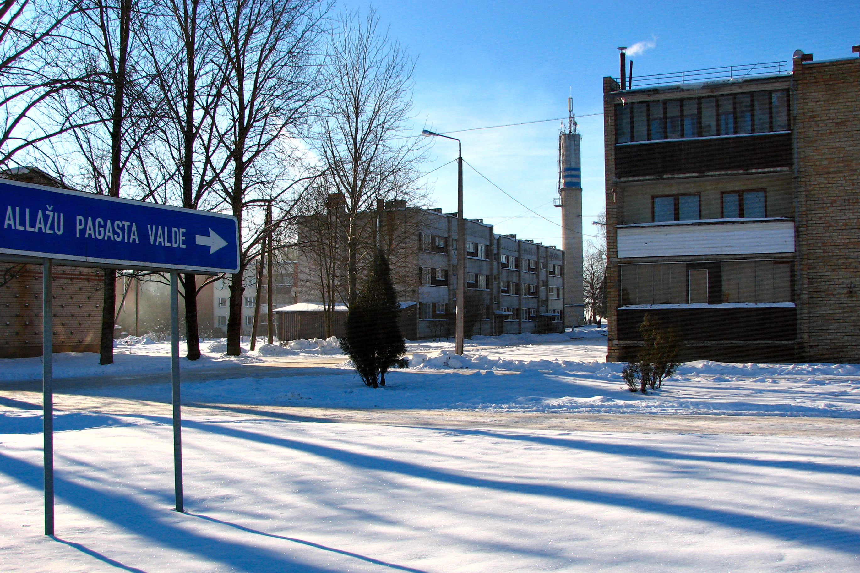 Allaži village in Sigulda municipality, Latvia